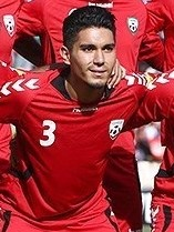 Hassan Amin before match with Japan, 2018 FIFA World Cup qualification, Azadi Stadium, Tehran